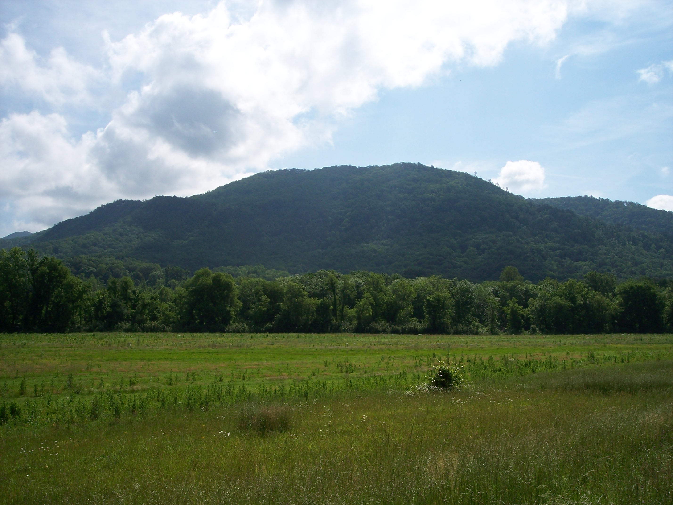 The eastern section of Chilhowee Mountain near Walland at the gap where the Little River cuts the mountain into eastern and western halves.